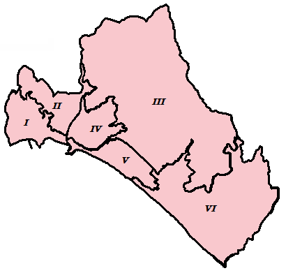 These are the quarters of Salerno, Campania. I. Centro II. Carmine-Fratte III. Frazioni Alte (Brignano, Matierno, Ogliara, Sordina, Giovi) IV. Gelsi Rossi-Irno-Calcedonia-Sala Abbagnano V. Torrione-Pastena-Mercatello-Mariconda VI. Arbostella - Zona Industriale - Fuorni